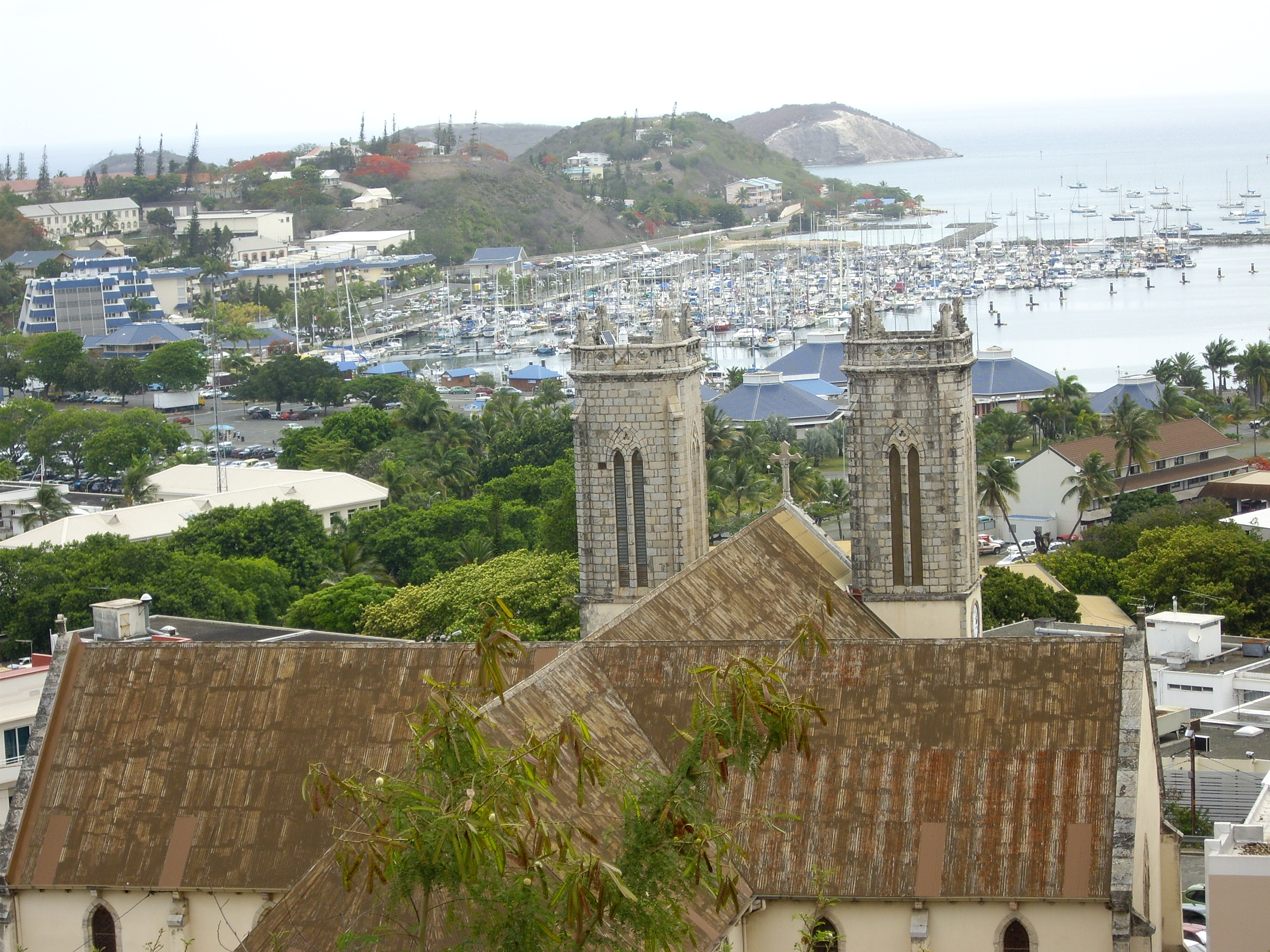 L. Entriken, Noumea, New Caledonia. View overlooking Cathedral.